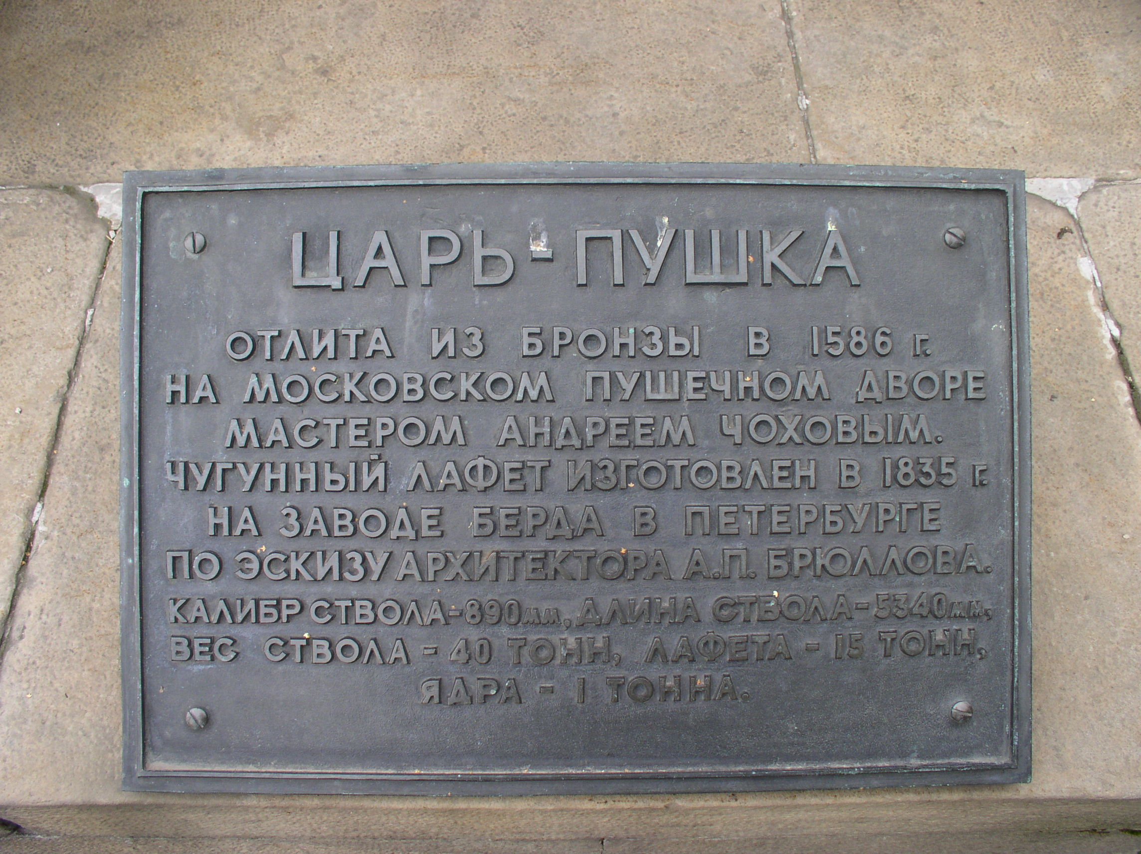 Tsar Cannon information table. Moscow, Russia.